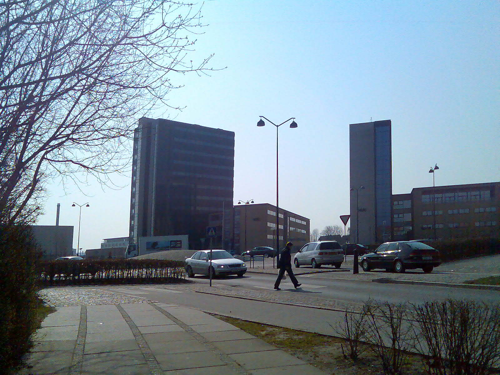 New development in the harbor area of Horsens, Denmark.